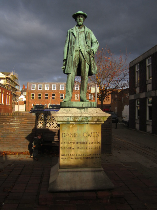 Statue of Daniel Owen at Mold, Flintshire, Wales.